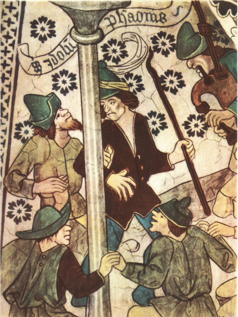 Dancing peasants. Wall painting by Albertus Pictor in Härkeberga church, Uppland, Sweden